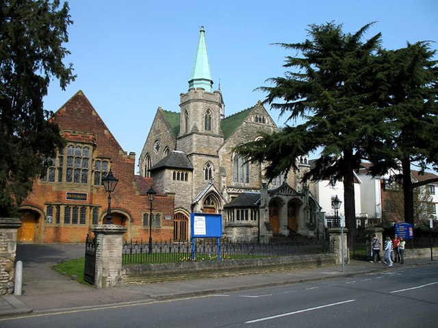 Ewen Hall (left) and Barnet United Reformed Church (centre right), Wood Street, Chipping Barnet, London (formerly Middlesex)